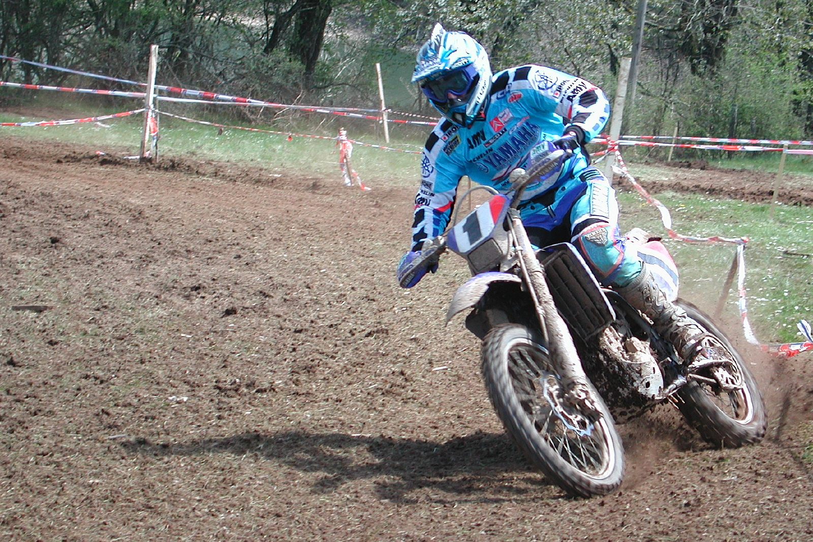 David Frétigné, in a cross test during the French Enduro championship.